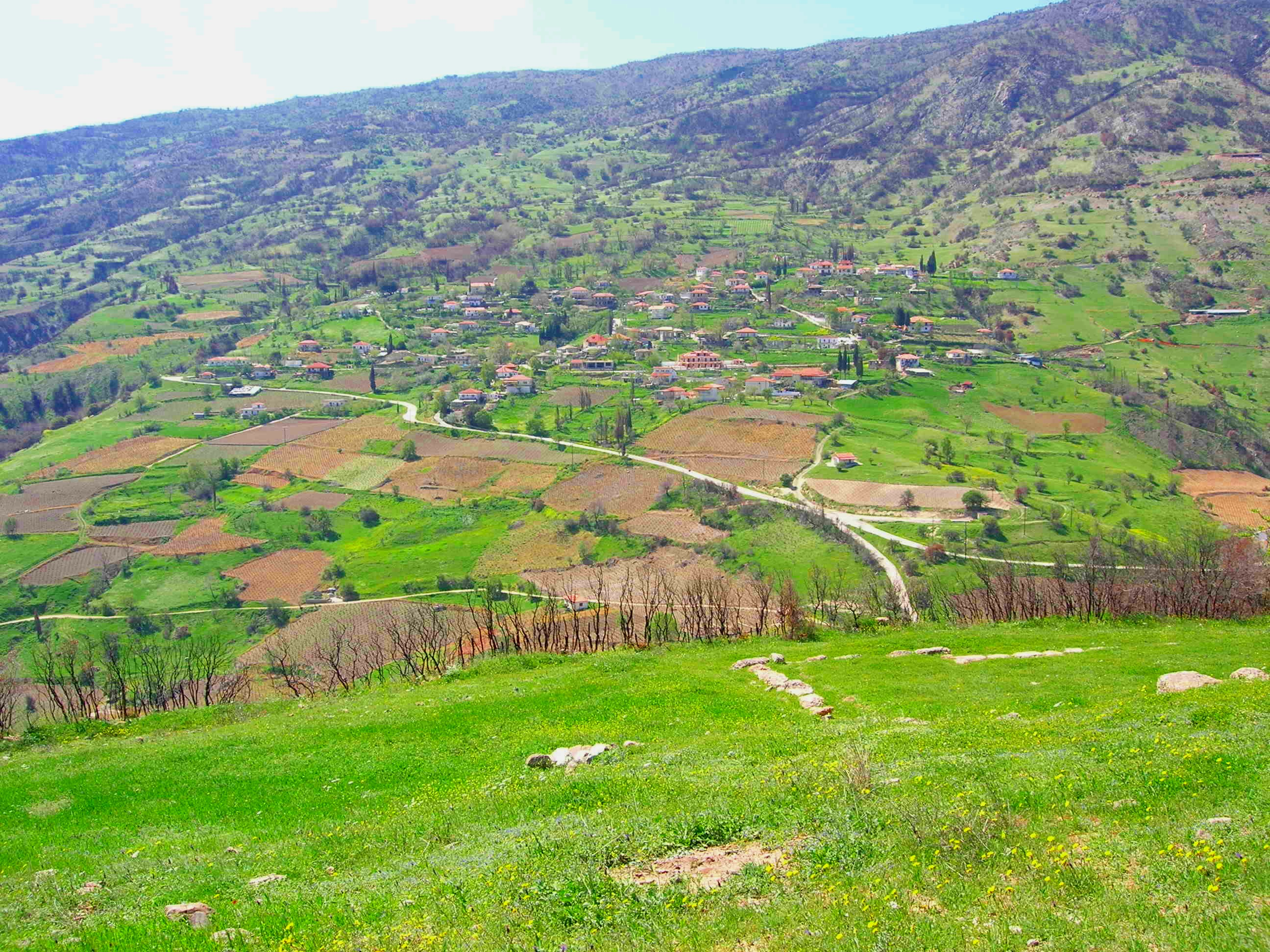 Mamousia (Mamoussia), Grèce (Greece)